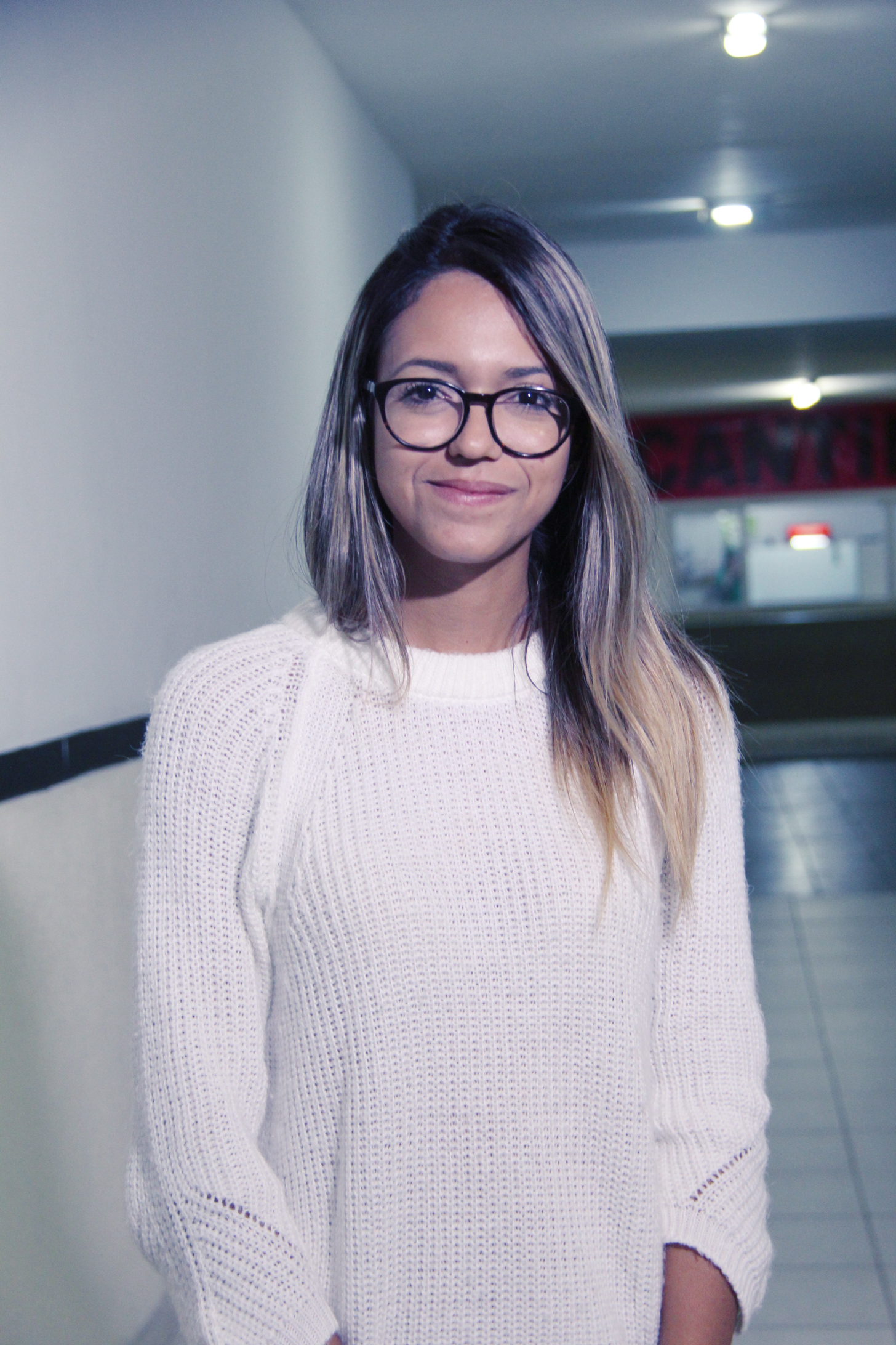 Female with eyeglasses